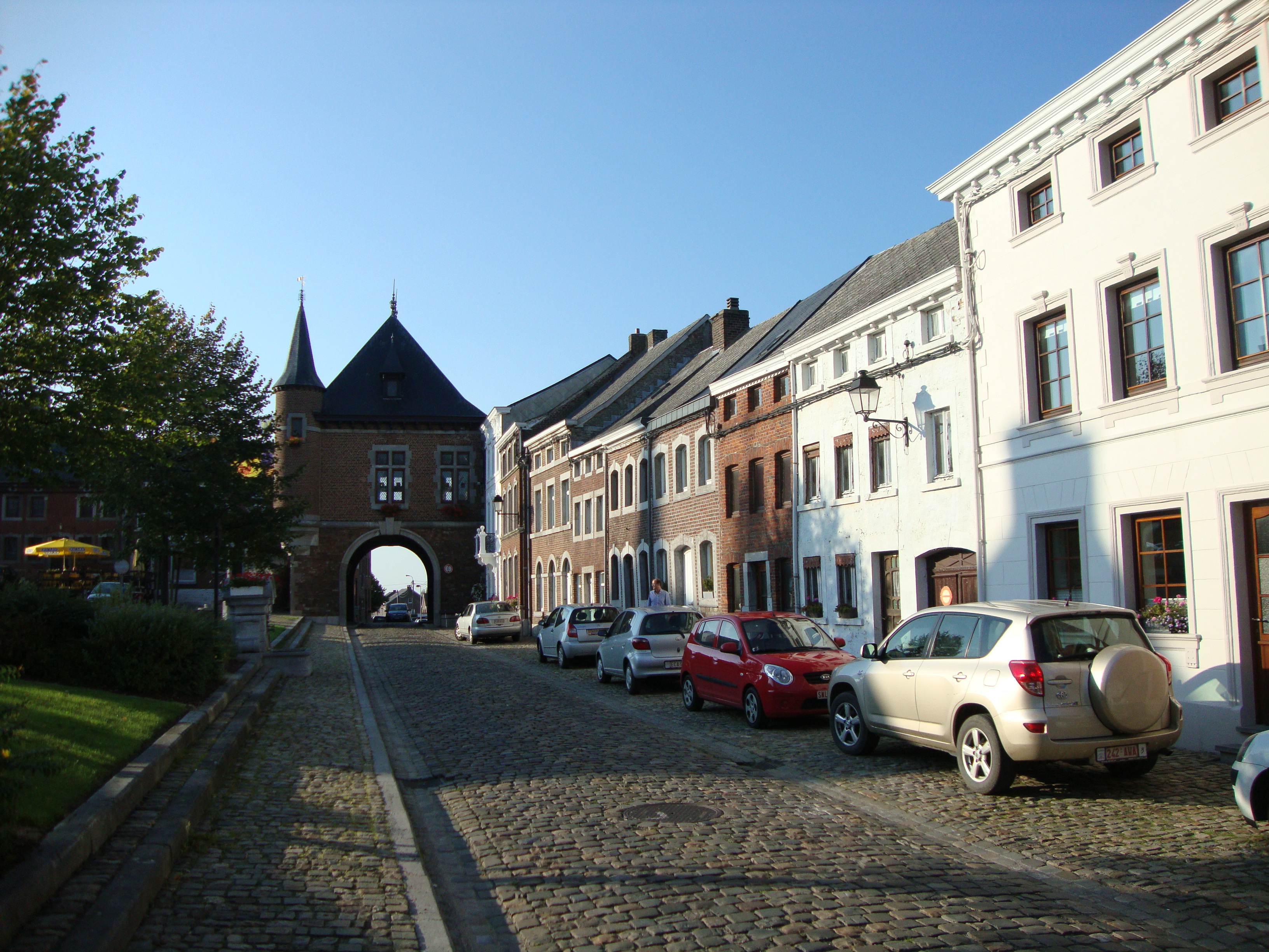 Ensemble formed by the square of Clermont-sur-Berwinne, Place de la Halle